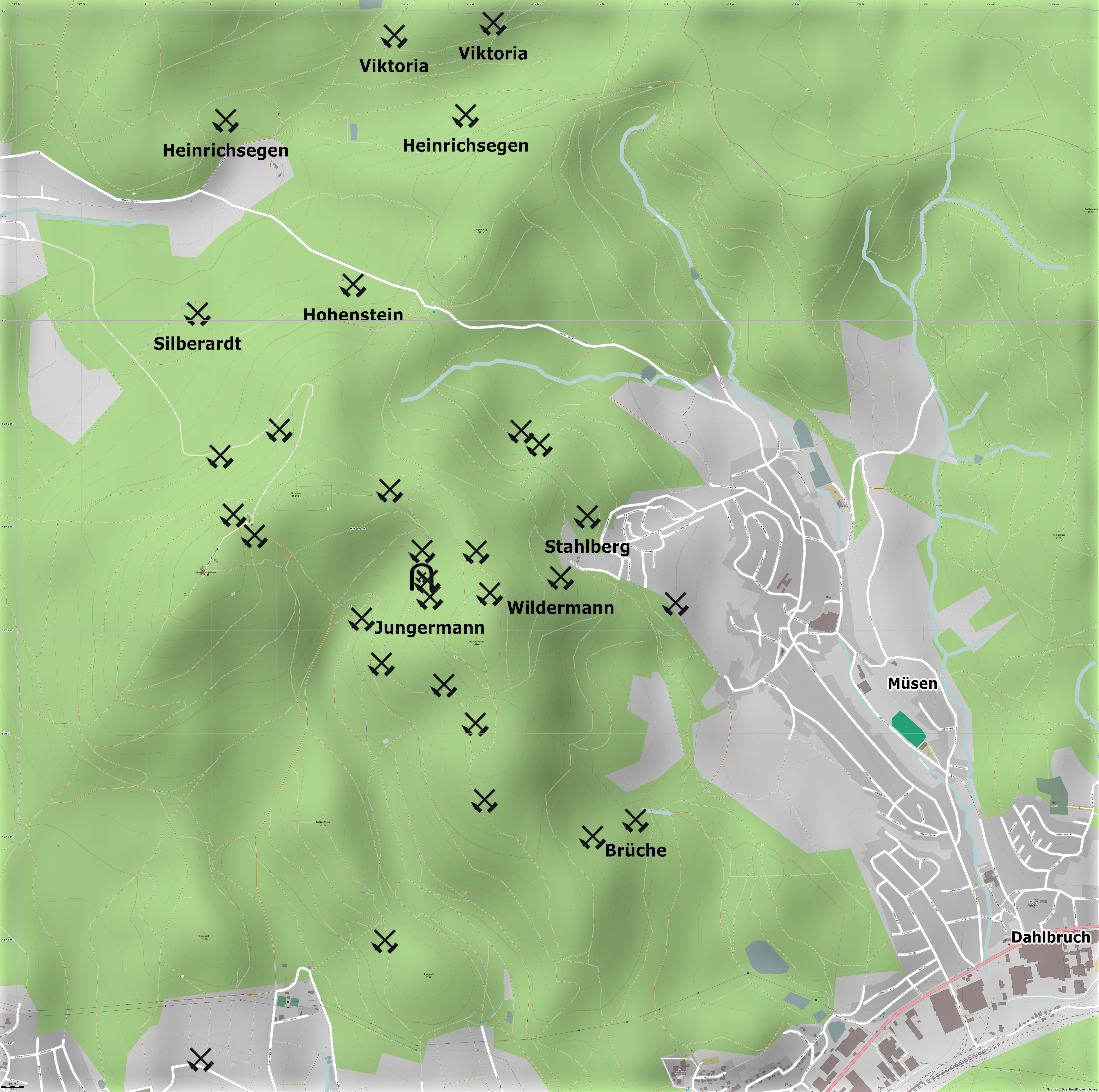 Mining in the area Hilchenbach-Müsen